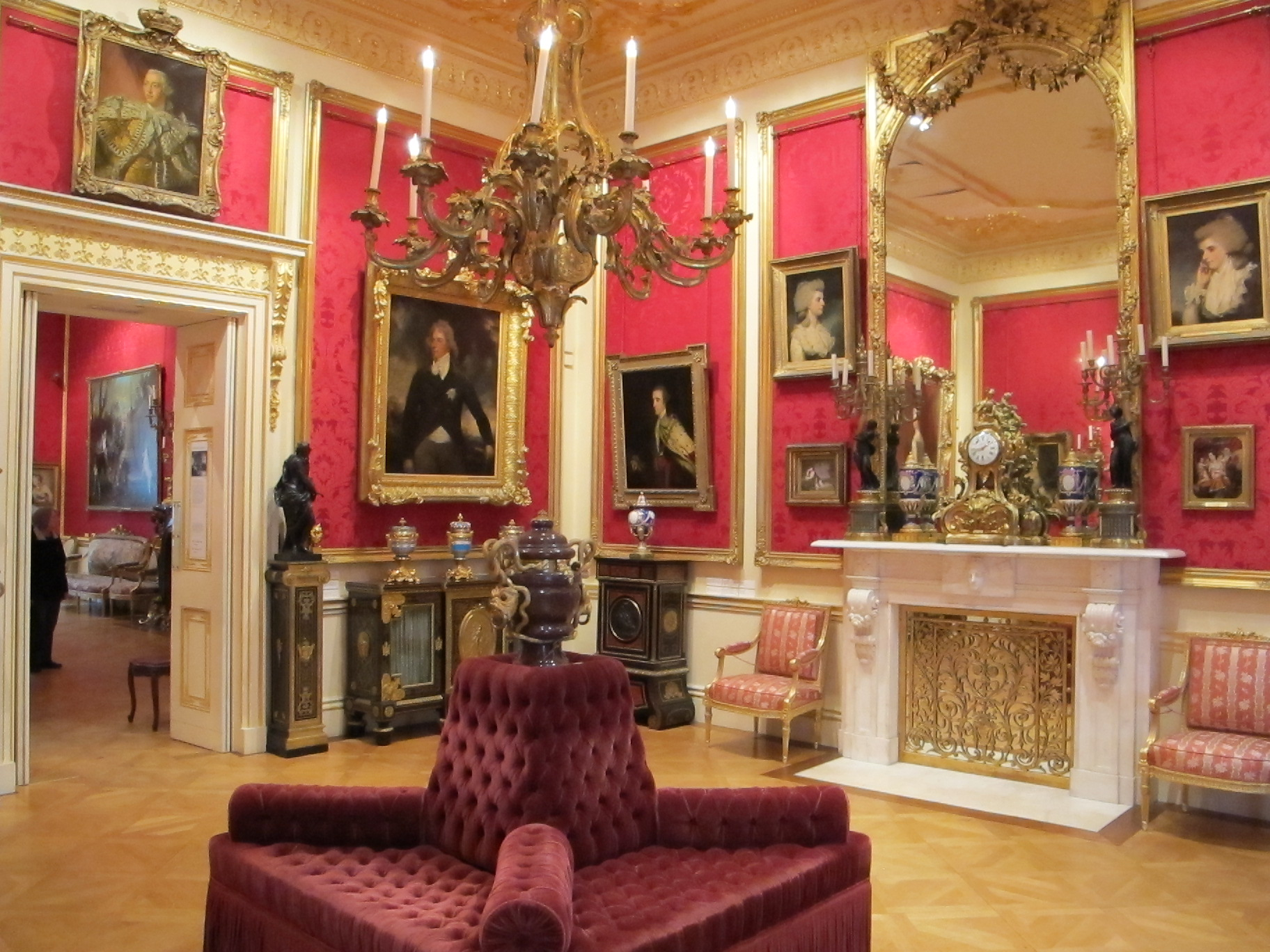 Drawing room, Wallace Collection, London